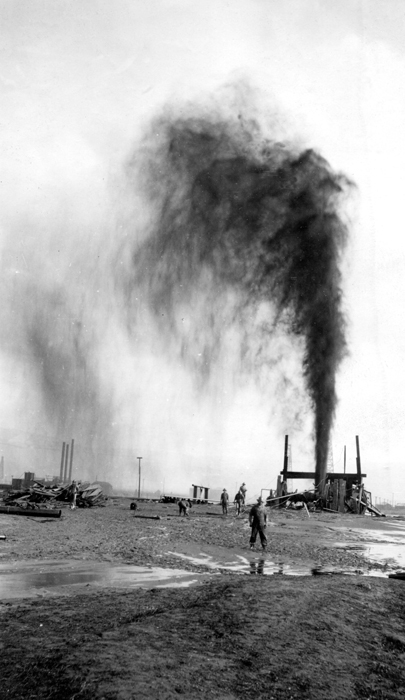 The Lakeview #2 gusher, Kern County, California, USA. Note that this is not the more famous Lakeview #1 gusher, which had occurred in 1909-1910.